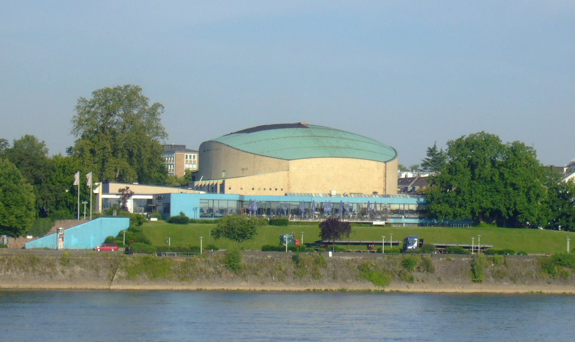 Beethovenhalle, conference and concert hall in Bonn